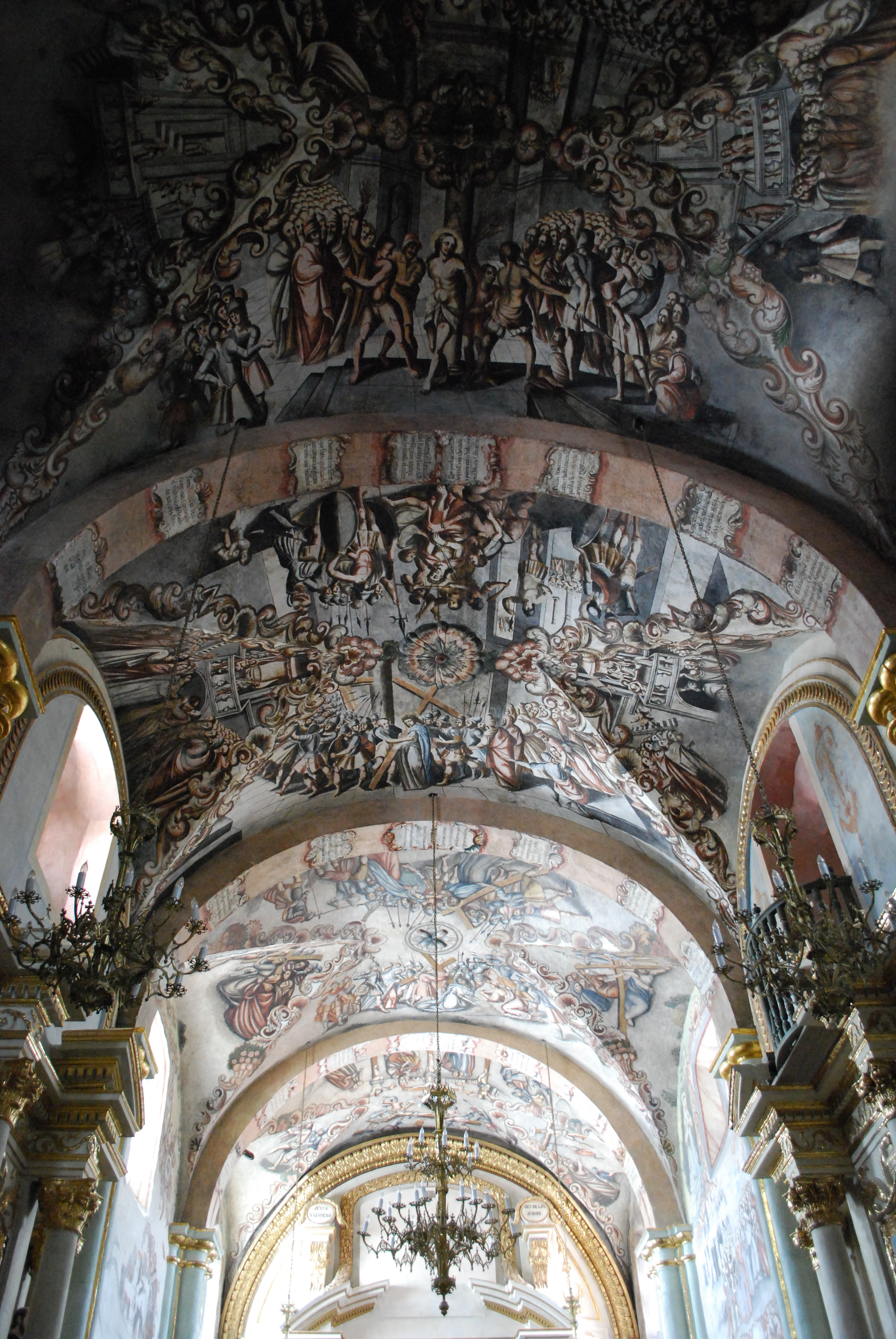 Overall view of the ceiling of the Sanctuary of Atotonilco, San Miguel Allende, Guanajuato, Mexico